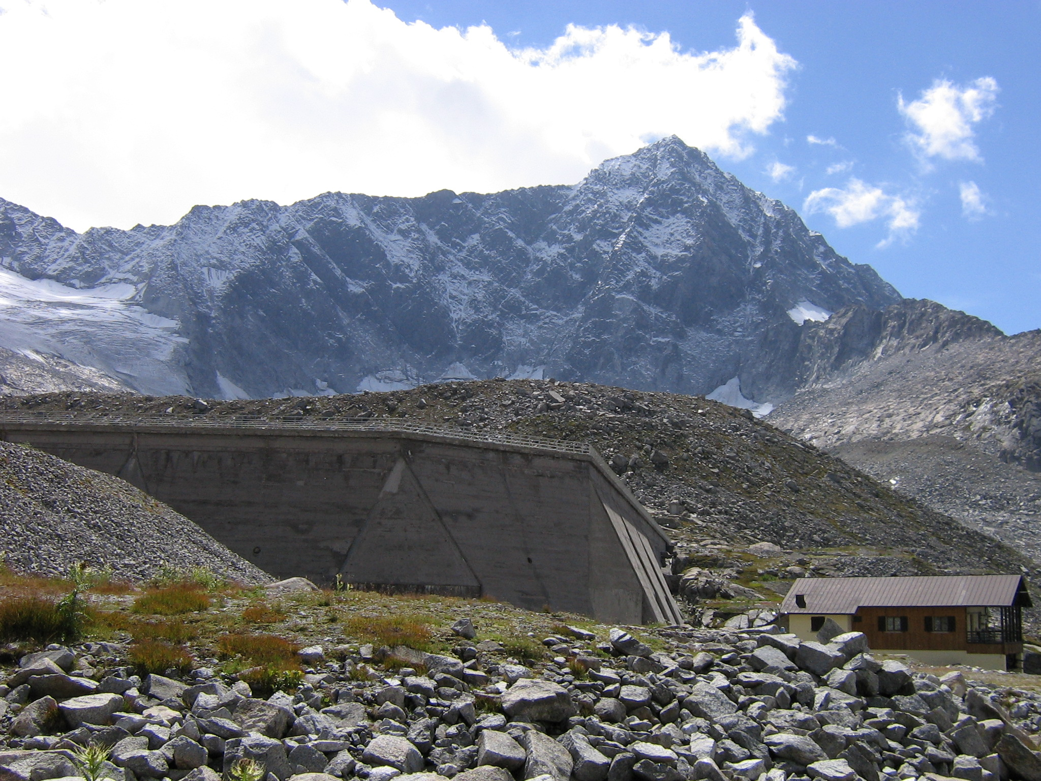 The Lake Venerocolo hydroelectric dam, at 2553 mt. (8425 ft.) above sea level, with the North face of Mount Adamello (3554 mt, 11728 ft) on the background.